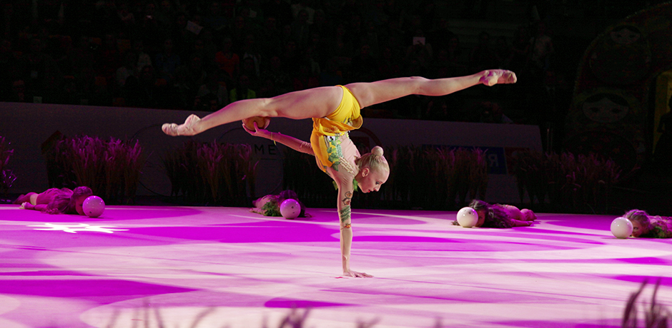 Russian rhythmic gymnast Yana Kudryavtseva at the 2015 Gazprom Grand Prix in Moscow